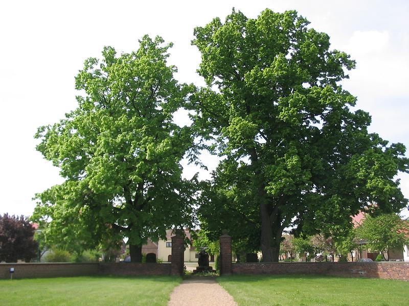 Gate to church square in Fredersdorf. Fredersdorf is a part of the town Belzig in Brandenburg, Germany.